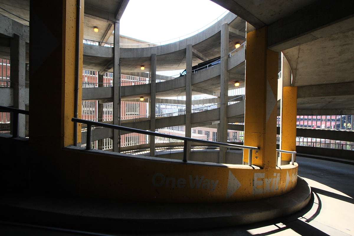 Busch Stadium Multi-storey car park Whirley-gig.